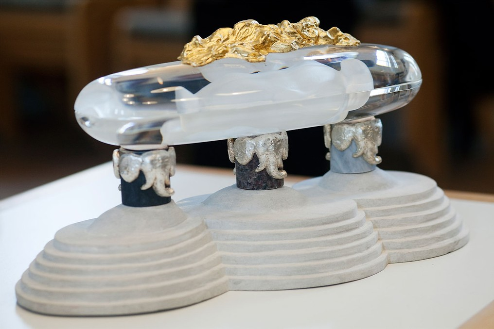 Model of the Sarcophagus for Queen Magrethe the 2nd of Denmark By Bjørn Nørgaard with support from Stevens Vaughn and Hafnia Foundation